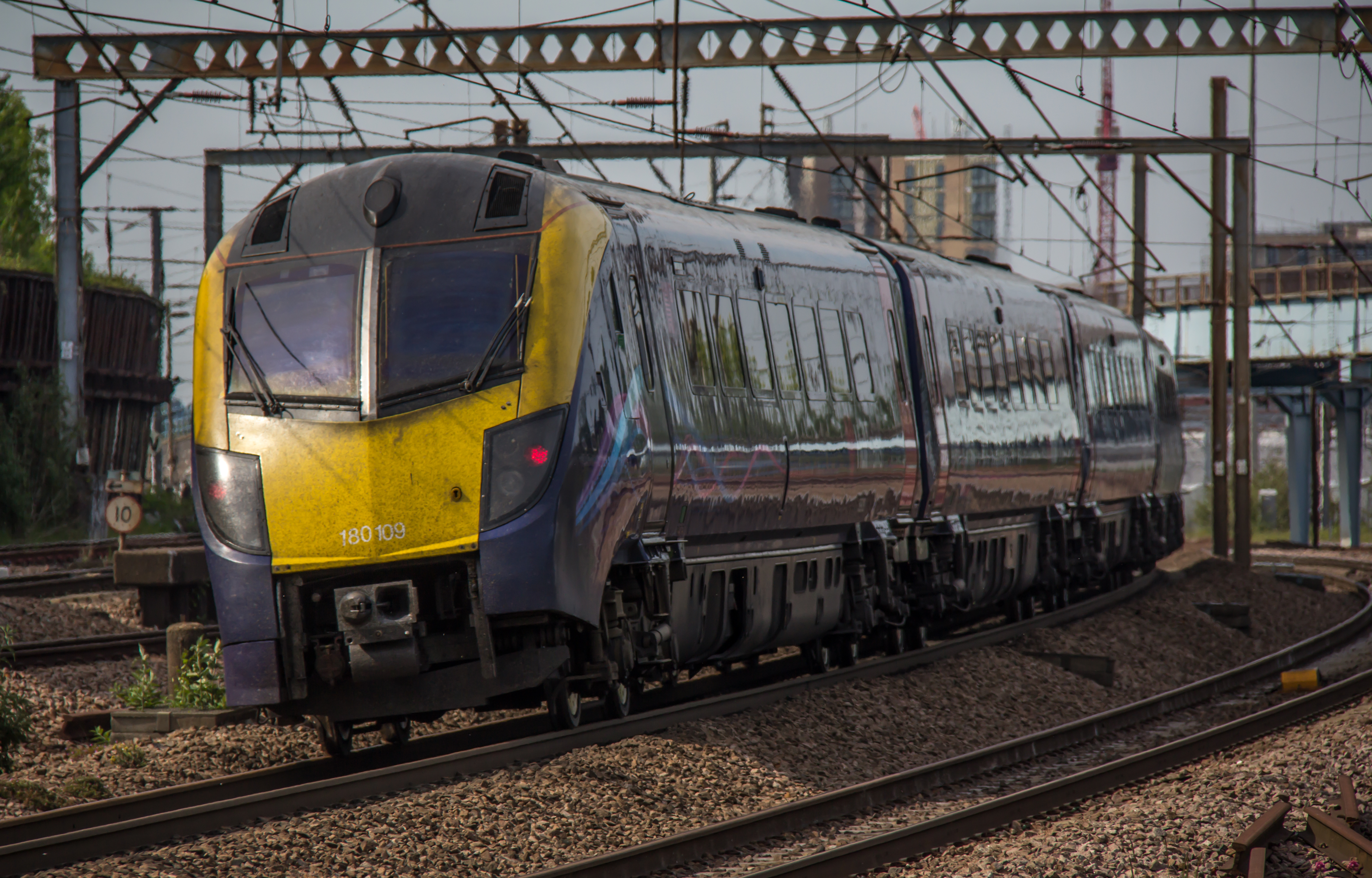 Hull Trains Harringay